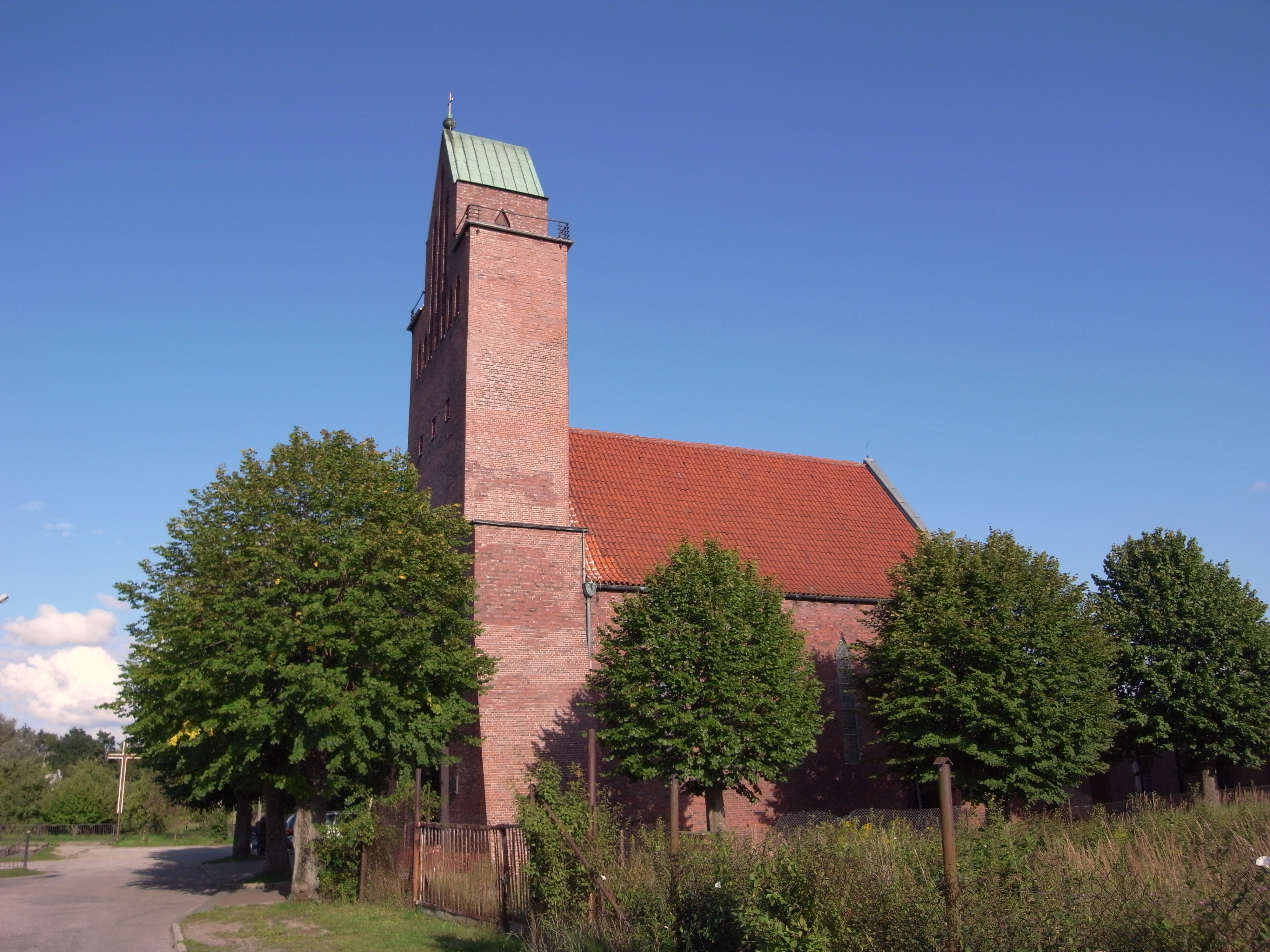 Sławno.Church of St.Anthony of Padua from the years 1925-1928, architect: Diedrich Suhr.